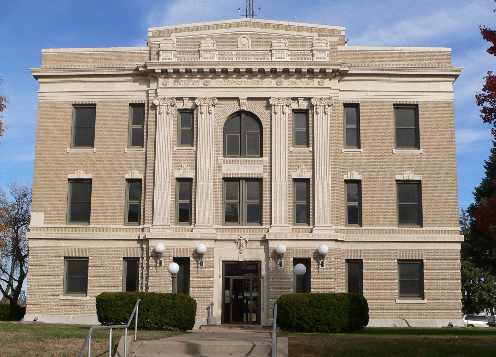 Richardson County Courthouse in Falls City, Nebraska: seen from the south.